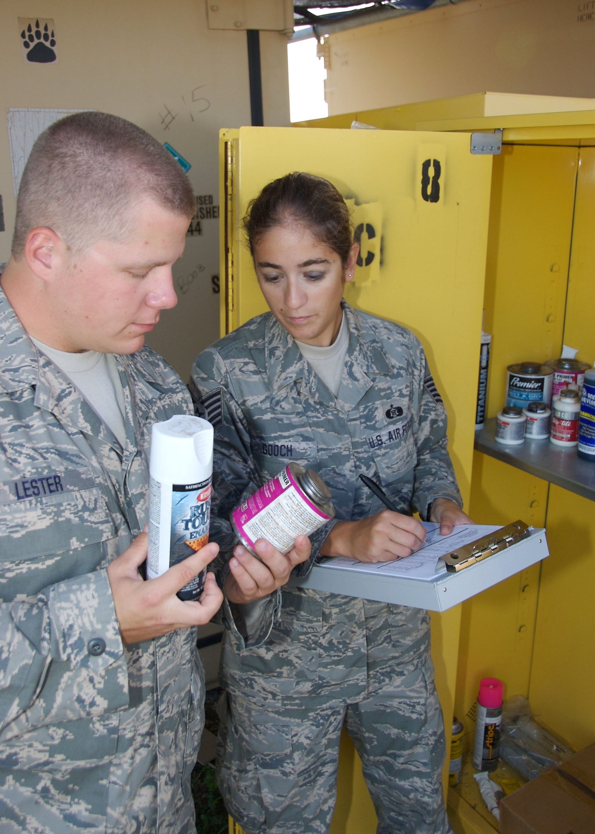 The following is the author's description of the photograph quoted directly from the photograph's Flickr page. "GUANTANAMO BAY, Cuba - Air Force Tech Sgt. Jeanette Gooch, deployed with the 474th Expeditionary Civil Engineering Squadron of the West Virginia Air National Guard in support of Joint Task Force Guantanamo, is in charge of all hazardous materials that come in and out of Camp Justice. Gooch works primarily with chemical and biological agents in her military career and civilian job. (JTF Guantanamo photo by Air Force Staff Sgt. Brian A. Wright) "